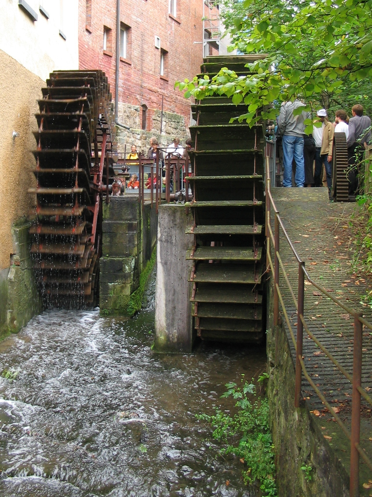 Gerstenmühle, Tübingen, Germany